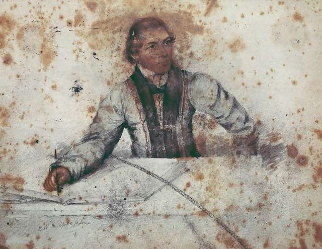 William' Self Portrait